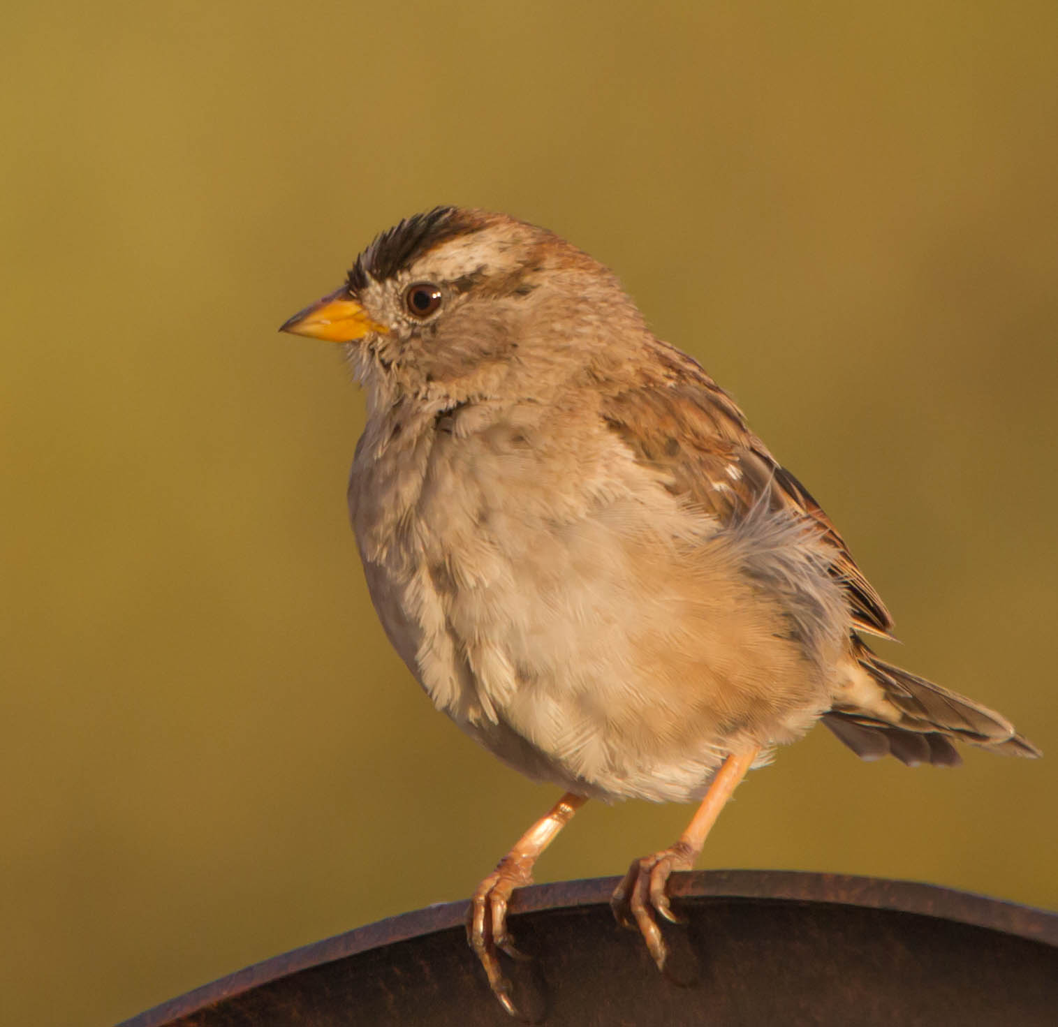 ...haven't posted one of these in awhile...no shortage in my yard...